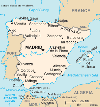 CIA map of Spain.